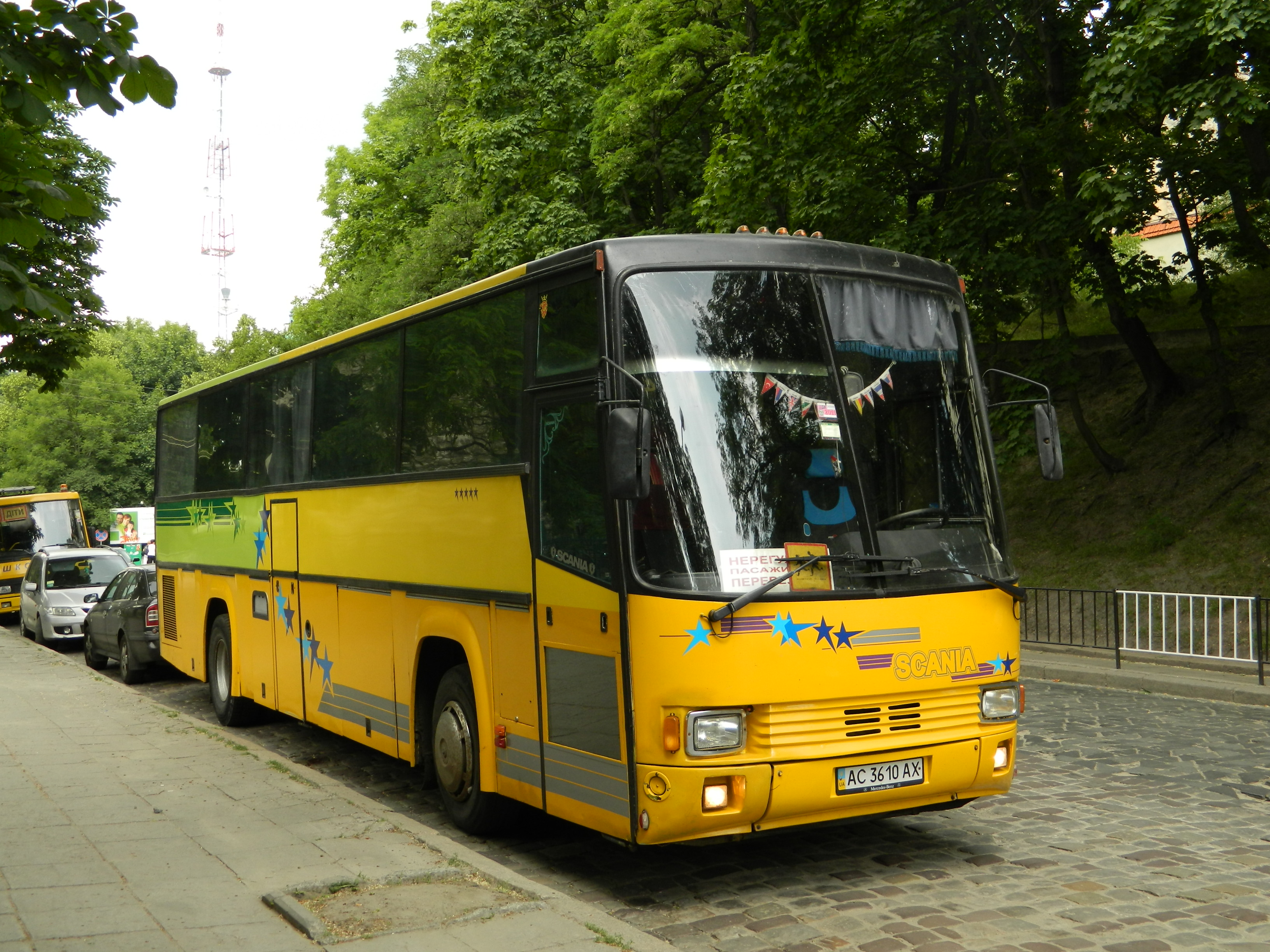 Smit Orion bus on Scania chassis in Ukraine.